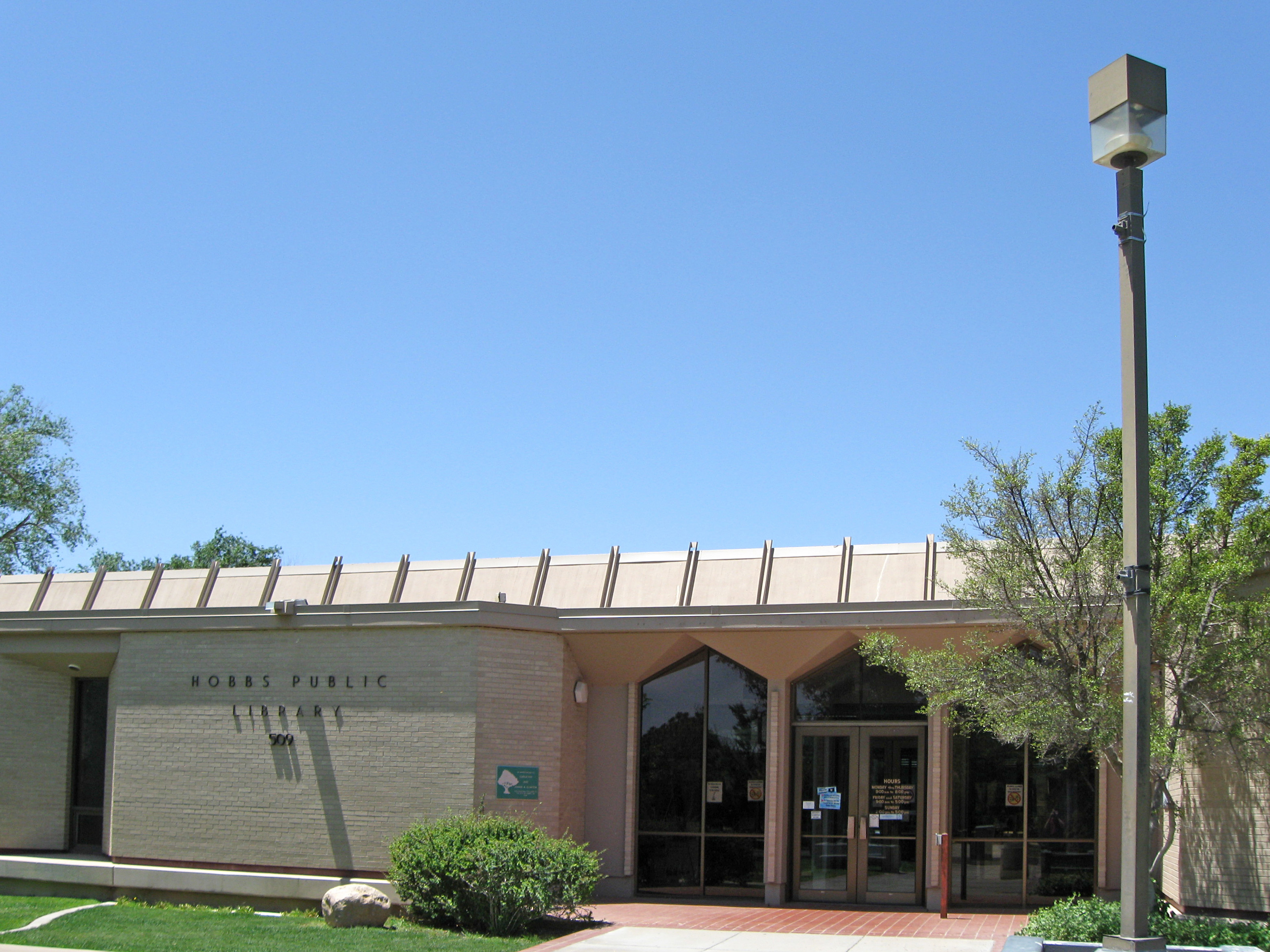 Hobbs (New Mexico) Public Library, located at 509 N. Shipp in Hobbs, New Mexico.